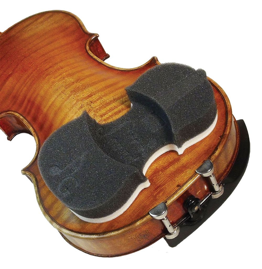 Violin/ Viola shoulder rest made from acoustic foam.